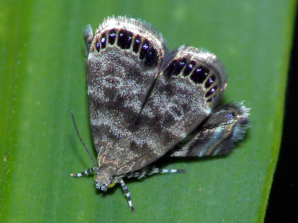 Brenthia sp. in Hong Kong